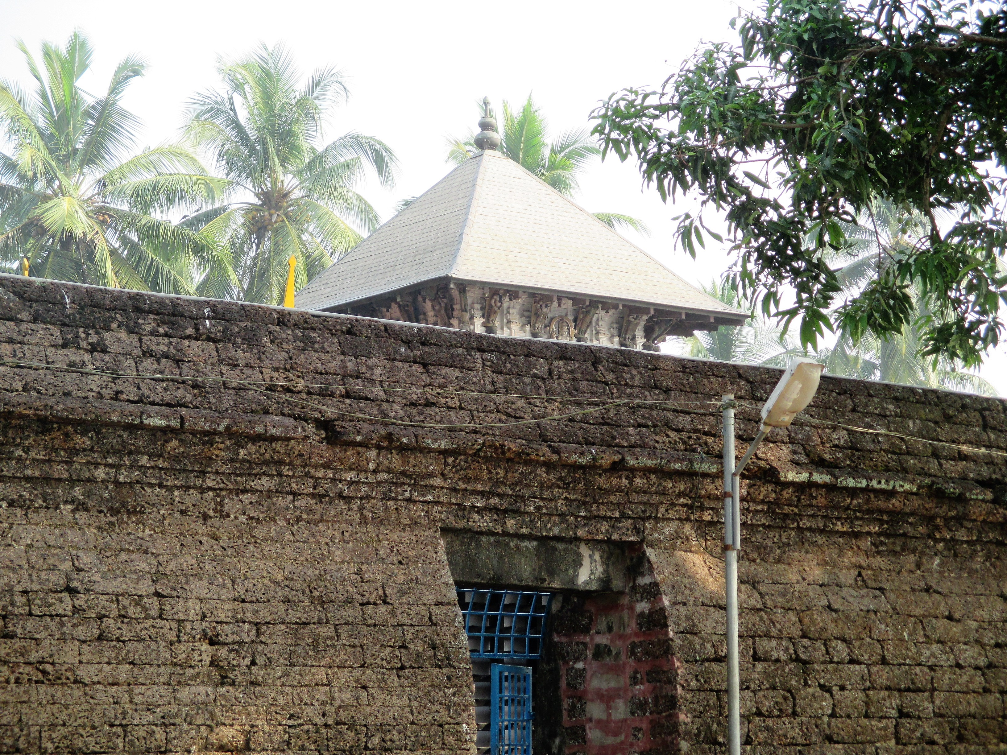 Thirunavaya temple